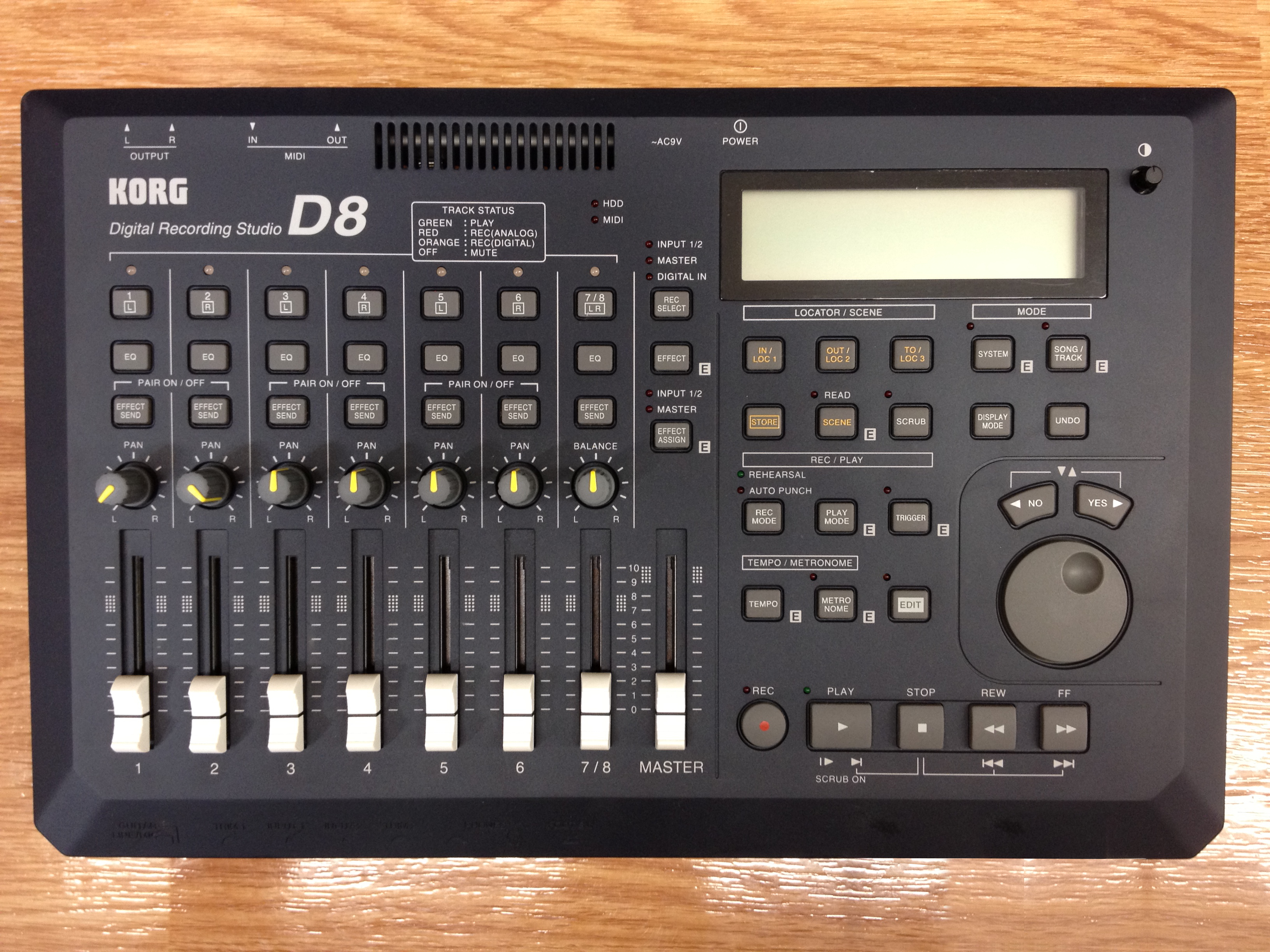 Korg D8 Digital Recording Studio (1997)